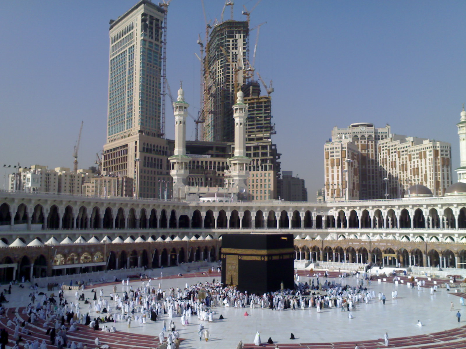 Mecca City